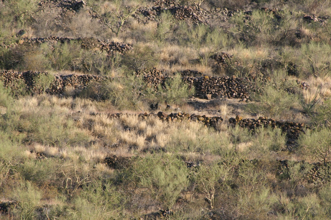 Cerro De Trincheras - Archeological site in northern Sonora, Mexico.